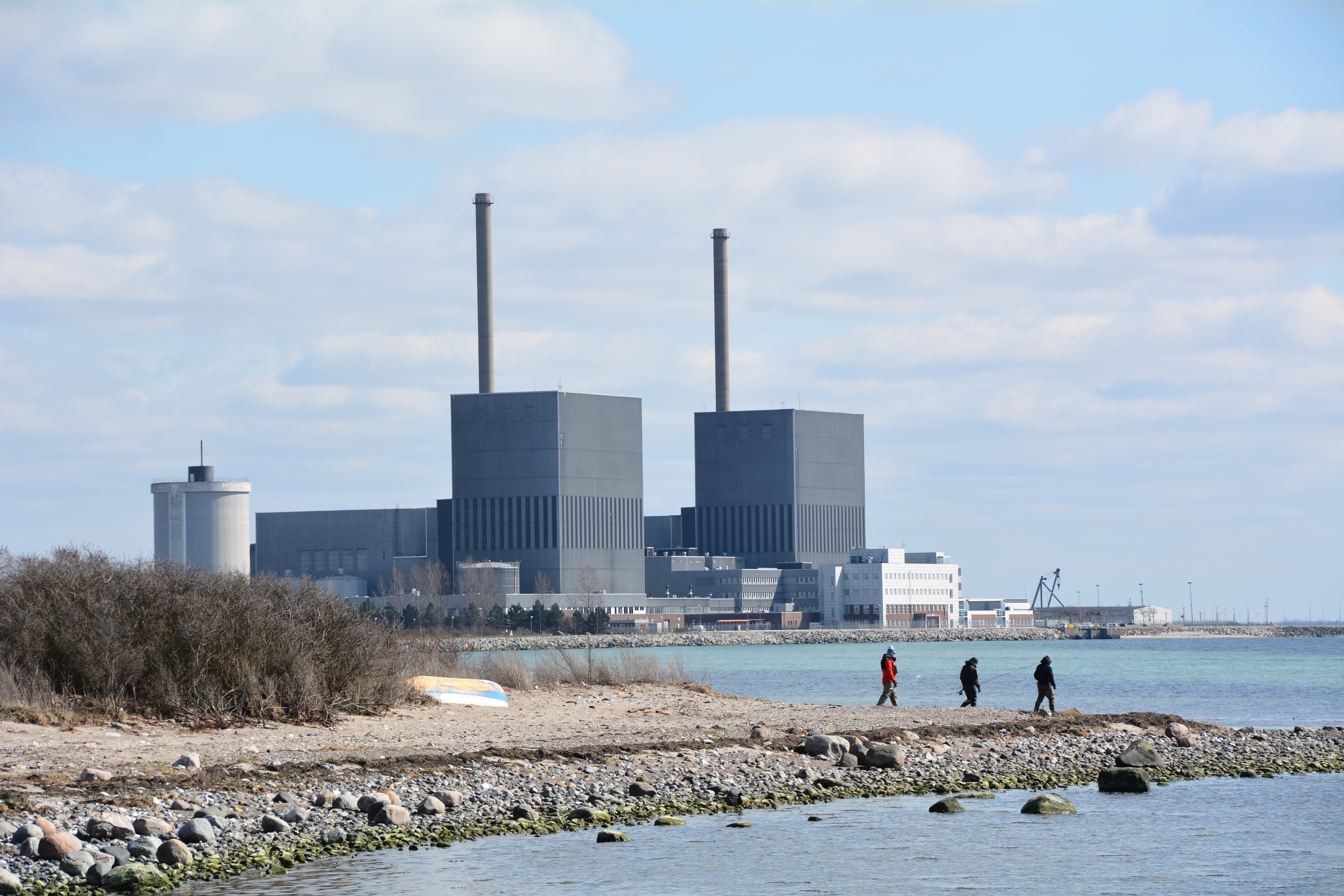 Barsebäcks kärnkraftverk, sett från Barsebäckshamn